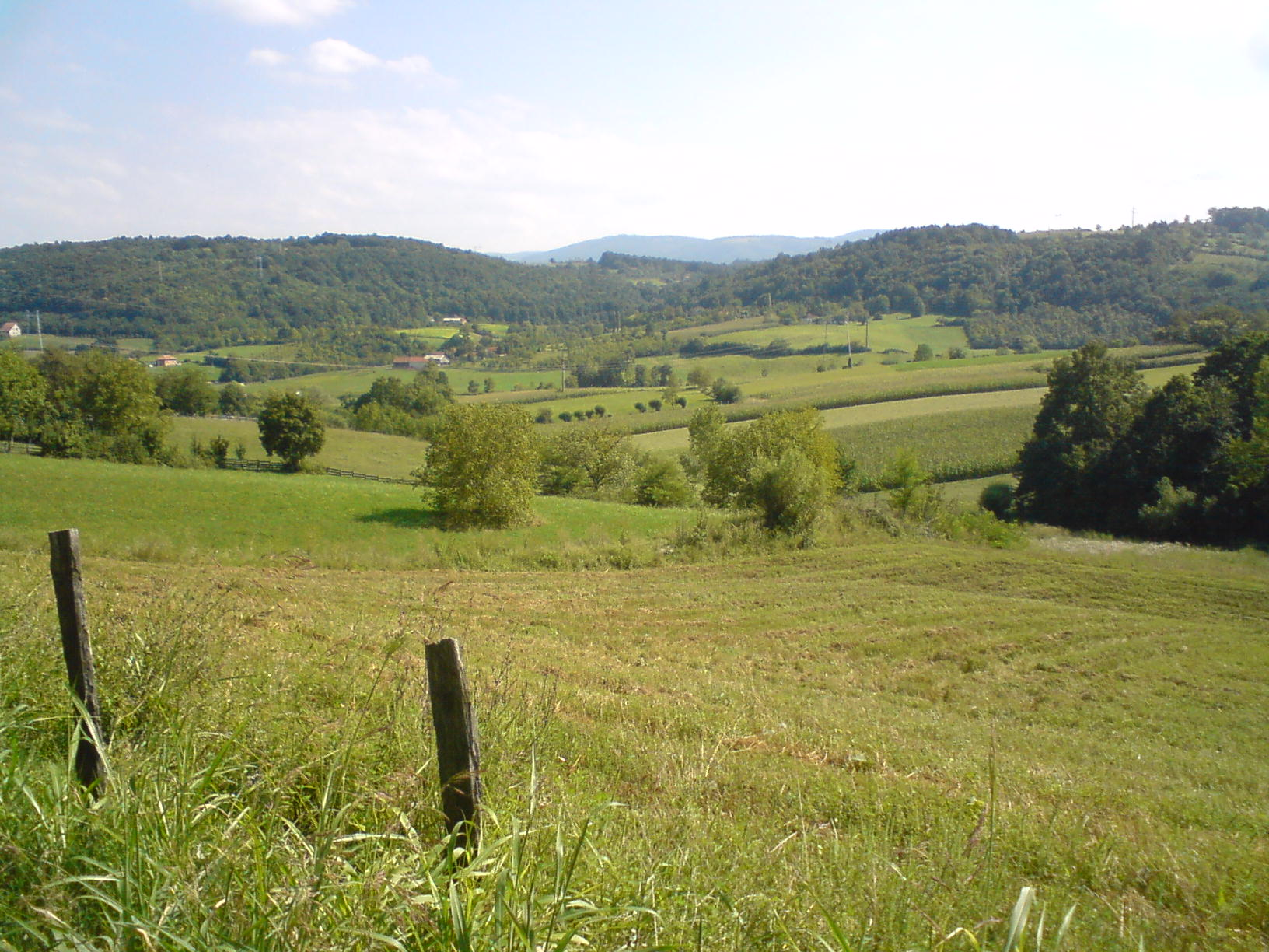 Petnica